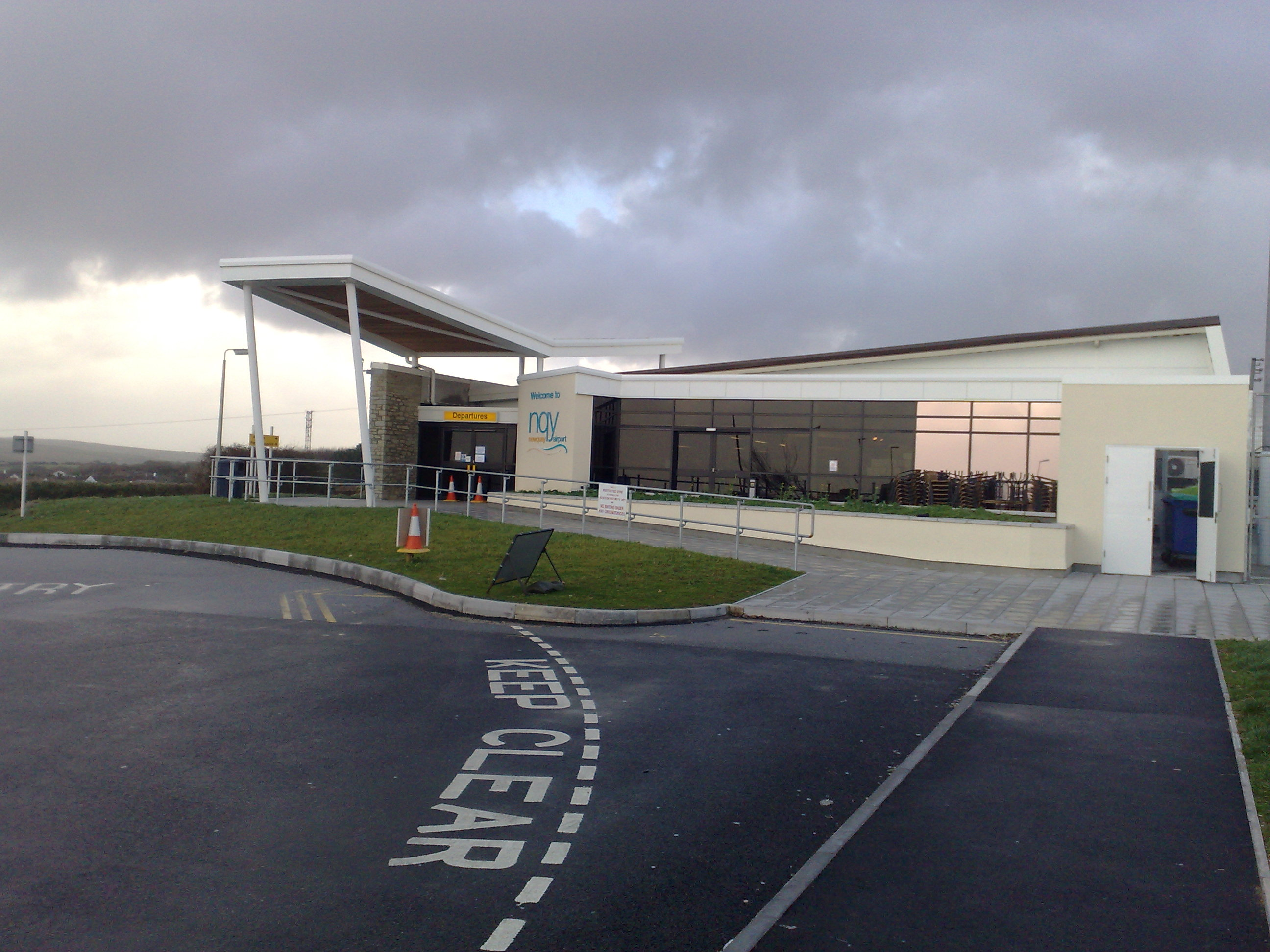 The current terminal at Newquay Cornwall airport as of December 2007.